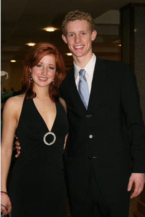 Emily Samuelson & Evan Bates (USA) at the closing banquet at the 2008 World Junior Figure Skating Championships. They won the gold medal at this competition.